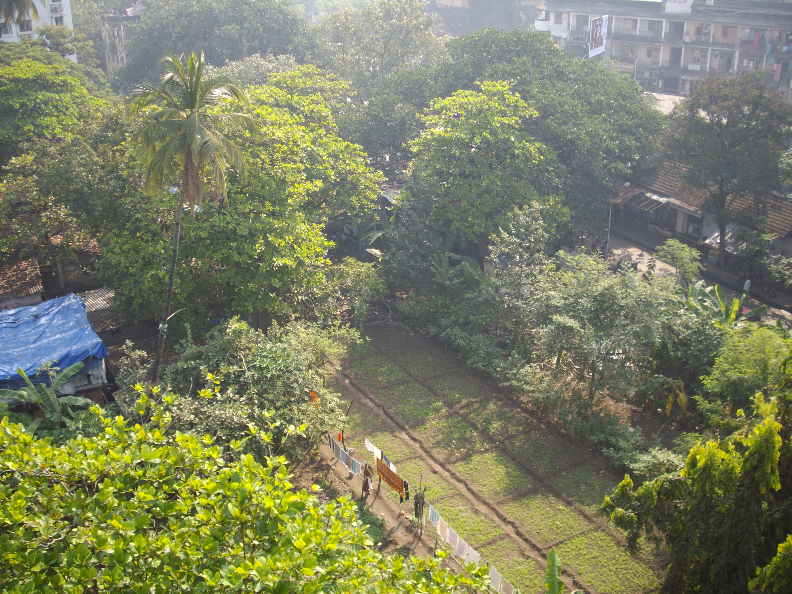 See Mumbai City before it completely transforms itself from a "FISHING VILLAGE" to the "CONCRETE SKYSCRAPERS" (2008)